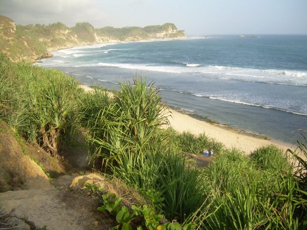 Nampu Beach